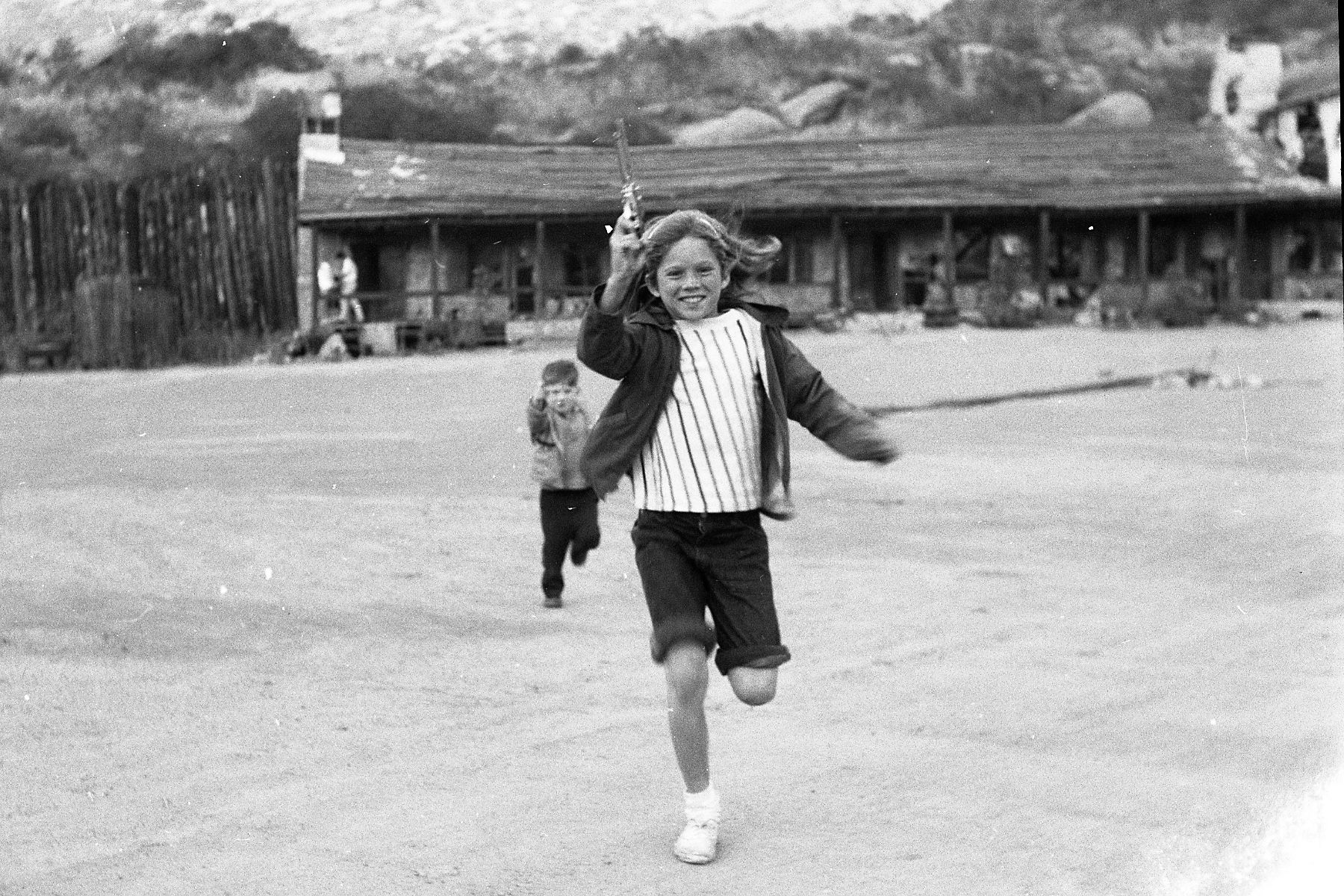 Children playing at Corriganville Movie Ranch in California, 1963 Other information Photo by George Garrigues.